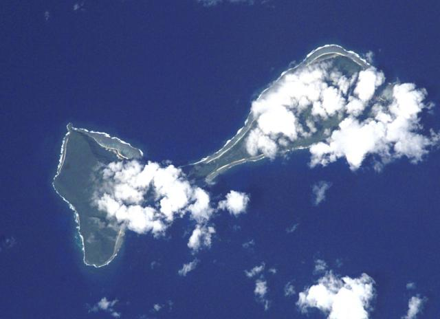 Ofu-Olosega from Space Shuttle. NASA Space Shuttle image ISS002-E-6878